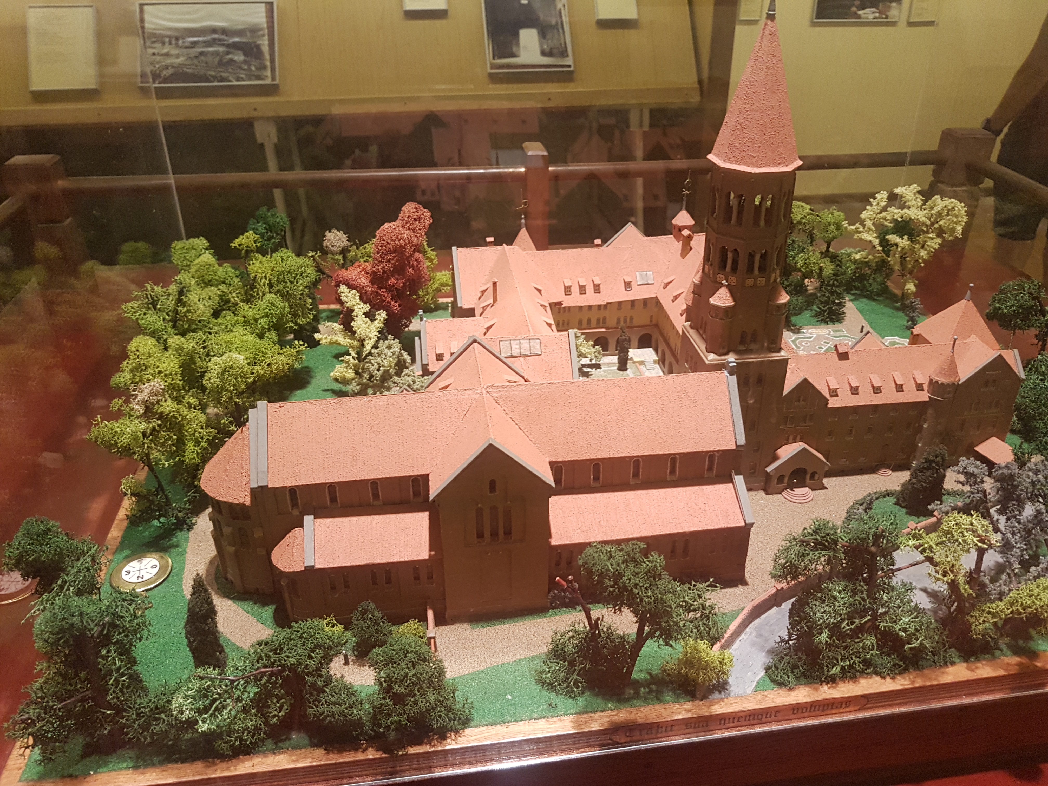 Crypt of the Benedictine abbey in Clervaux (lux .: Klierf, Cliärref